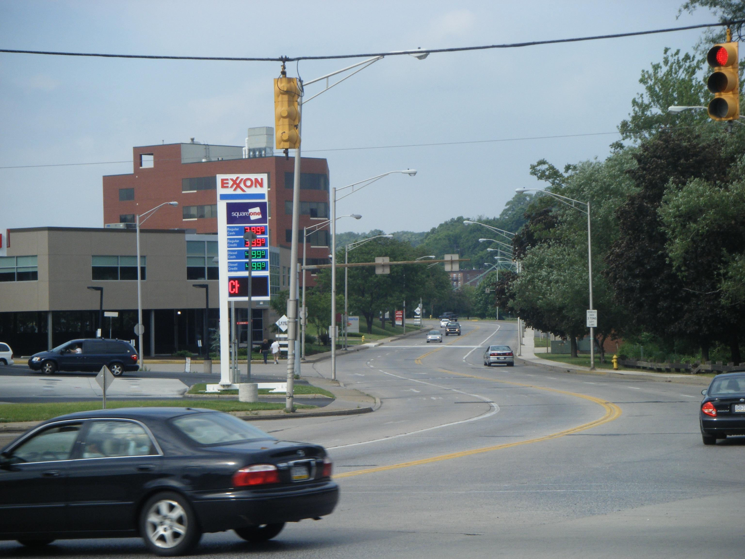 Northbound Pennsylvania Route 611 (Larry Holmes Drive) past the intersection with Third Street in Easton, Pennsylvania.